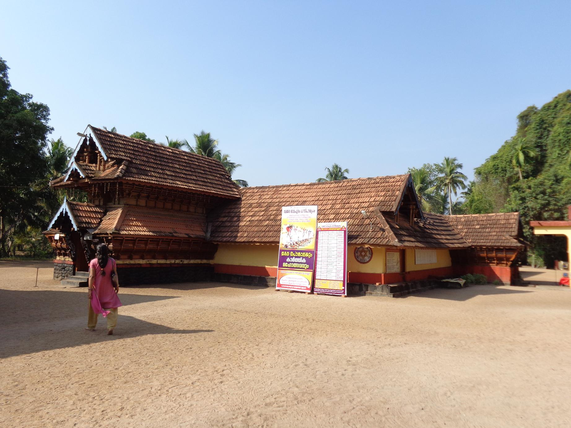 ramapuram devi temple, harippad